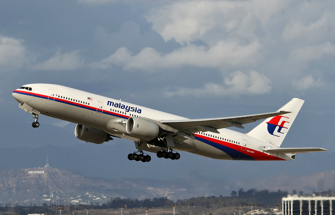 Derivative of File:9M-MRO Boeing 777 Malaysia Airlines October 2013.jpg